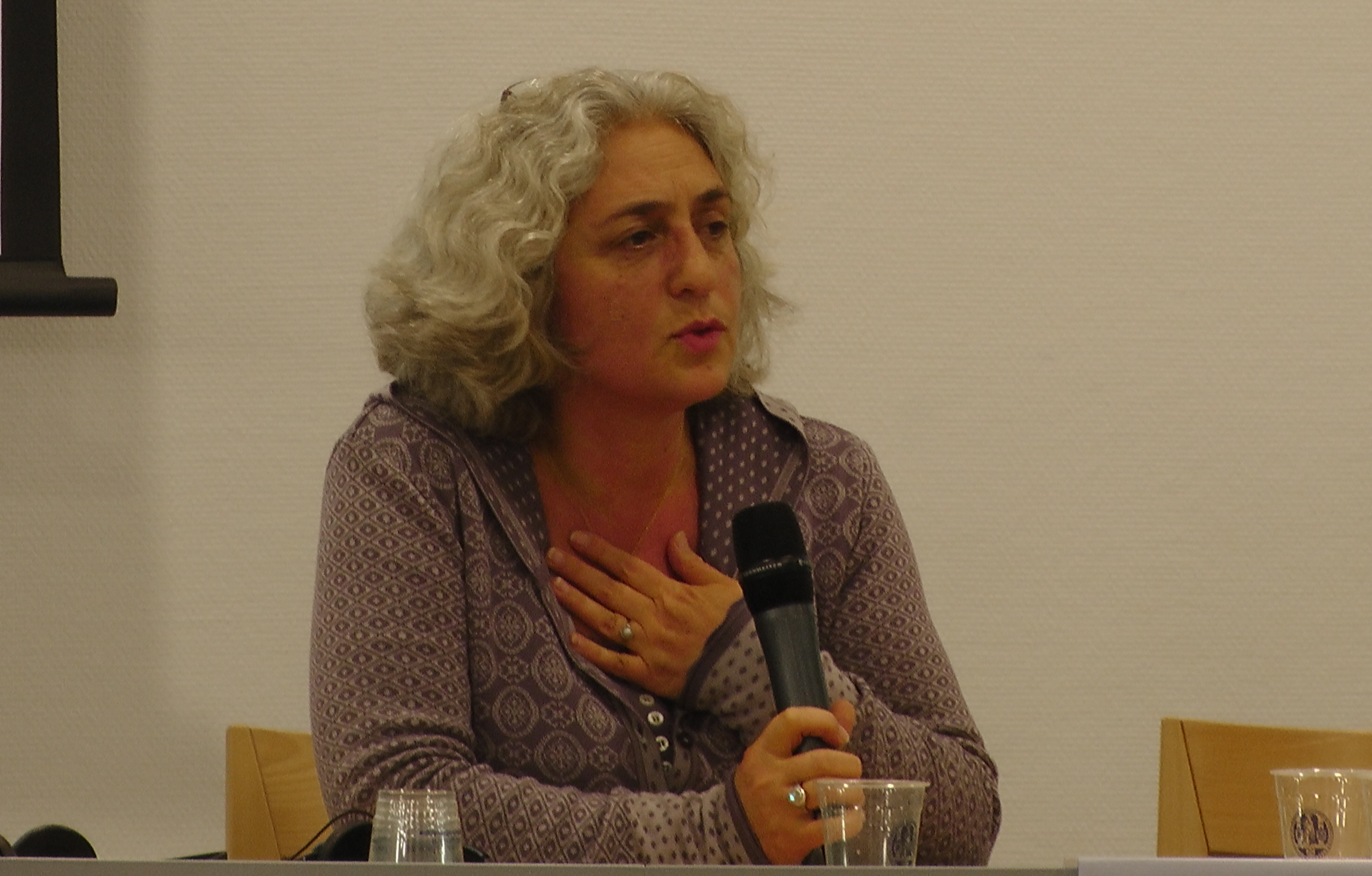 Farah Karimi, Persian Dutch politician, former member of Dutch parliament, director of Oxfam-Novib in The Hague. - Photo by Pejman Akbarzadeh / Persian Dutch Network